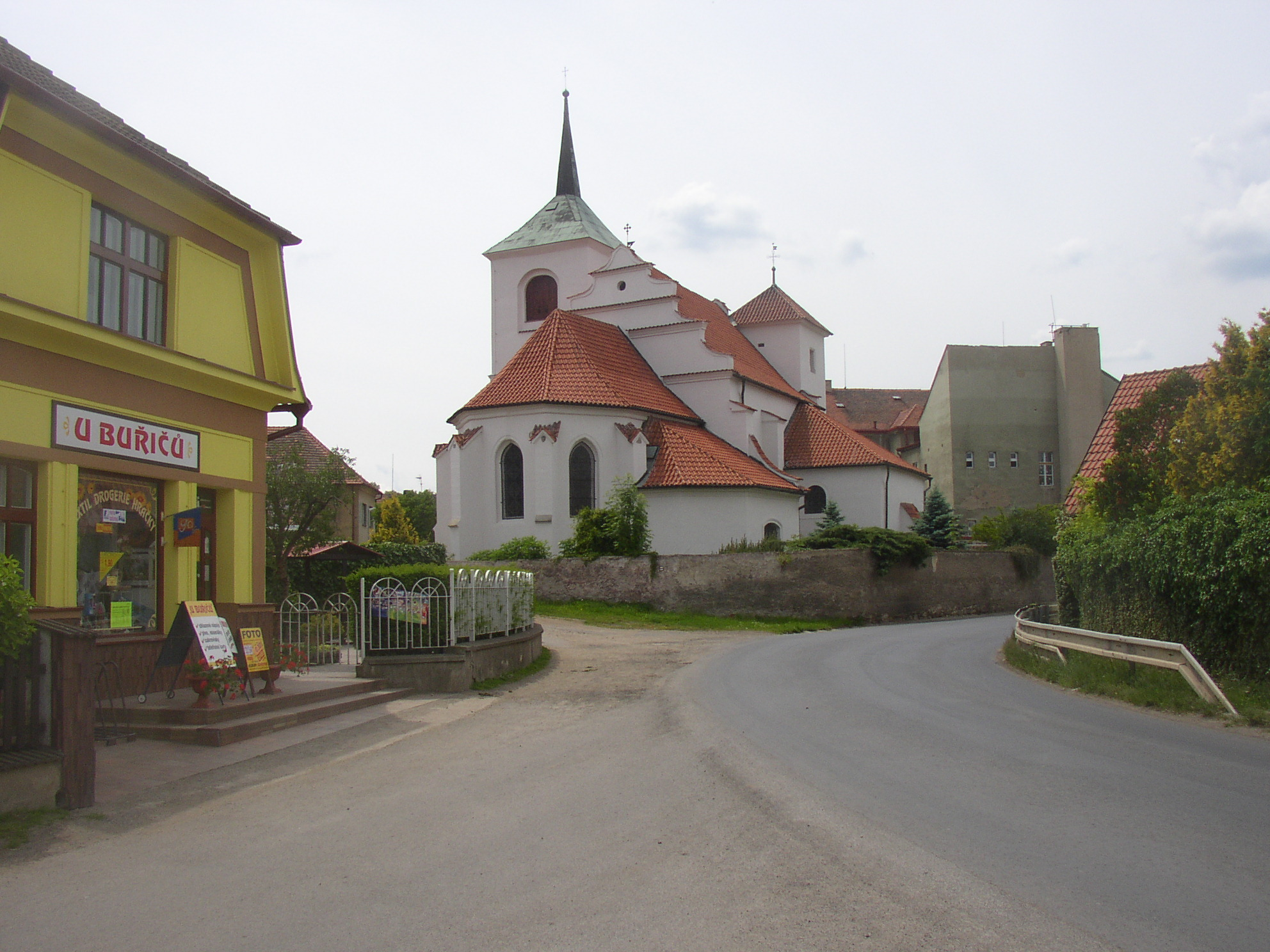 St Gotthard church in Brozany nad Ohří, Czech Republic. See also img. 01.